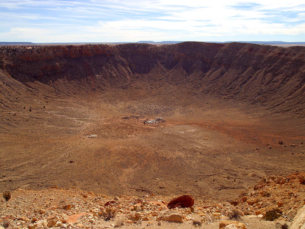 The Barringer Meteorite Crater in Arizona.